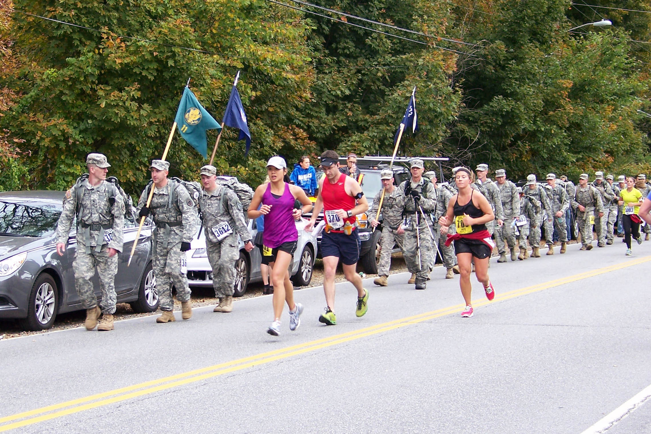 For the eighth year, service members gathered in Portland, Maine, to march the 26.2 miles of the Maine Marathon on Sunday, Oct. 6. The march, held in conjunction with the marathon, honors the fallen. Many carry pictures, buttons and ribbons of those service members who have died since the beginning of the war on terror. During the last two miles, family members and friends of the fallen join the march to complete the journey. "It's a chill up your spine because you've accomplished something and you're letting folks know that regardless of where the country is politically, we all stand together and we stand with the families of the fallen," said Maj. Grant Delaware, the executive officer for Headquarters and Headquarters Company 286th Combat Sustainment Support Battalion, Maine Army National Guard. Unit: 121st Public Affairs Detachment DVIDS Tags: operation; Maine; civil support team; fallen; Fallen Soldiers; weapons of mass destruction; memories; veterans; family; support; community; Iraq; National Guard; operation enduring freedom; 133rd Engineering Battalion; Tim MacArthur; Peggy Dostie; Tommie Dostie; Lynn Robert Poulin; maine marathon; ruck marches; families and servicemembers; not forgotten